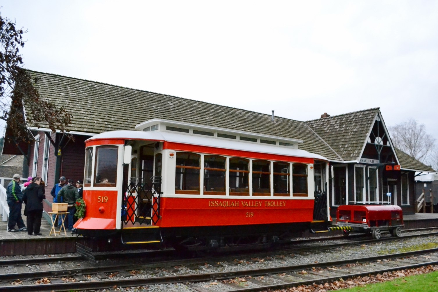 Refurbished Issaquah Valley Trolley parked at the historic Issaquah Depot